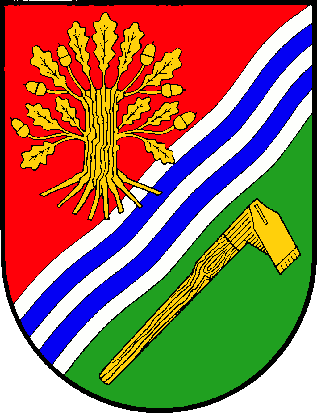 Coat of arms of the municipality Kasseedorf in Schleswig-Holstein, Germany.